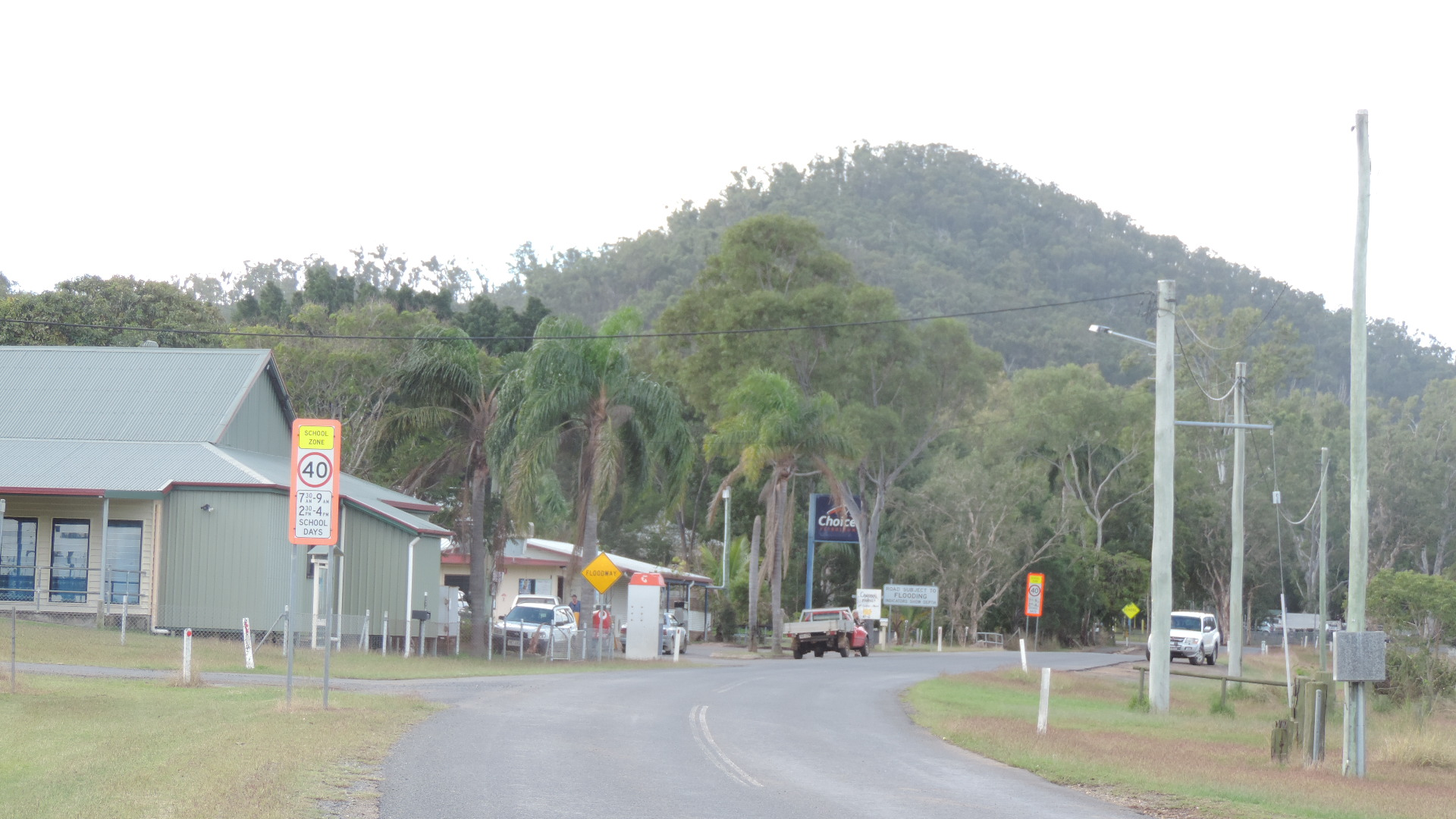 Streetscape, Cawarral Street, Cawarral, Shire of Livingstone, 2016